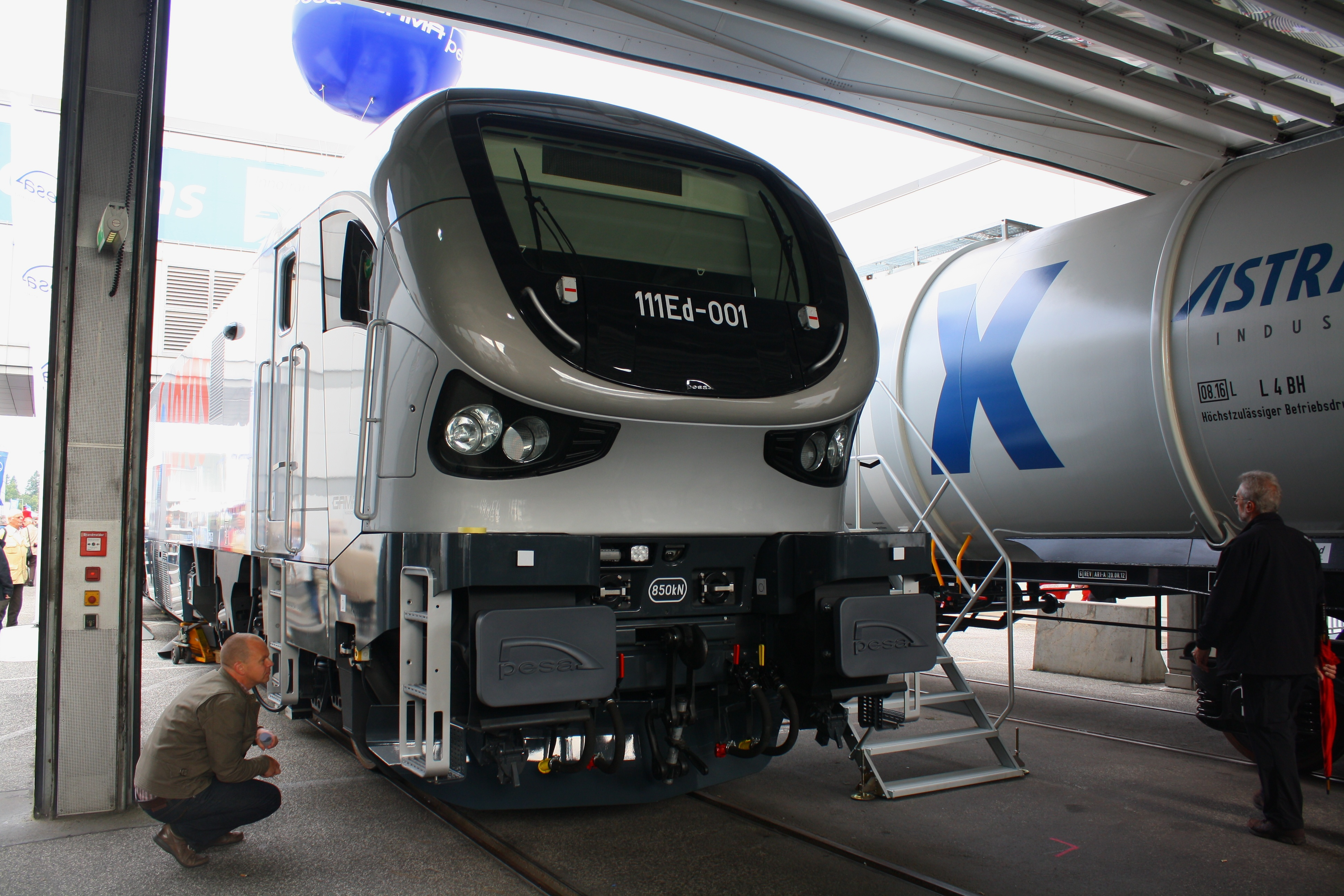 PESA Gama Marathon at InnoTrans 2012 in Berlin.